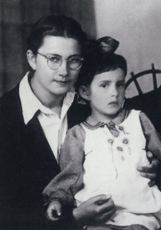 Zofia Glazer (12 April 1915 – 20 November 2007) with Rachela (Rachel) Zonszajn orphaned in 1942 during the Holocaust in occupied Poland. Part of family photograph taken after liberation in Siedlce in mid 1940s, reunification.